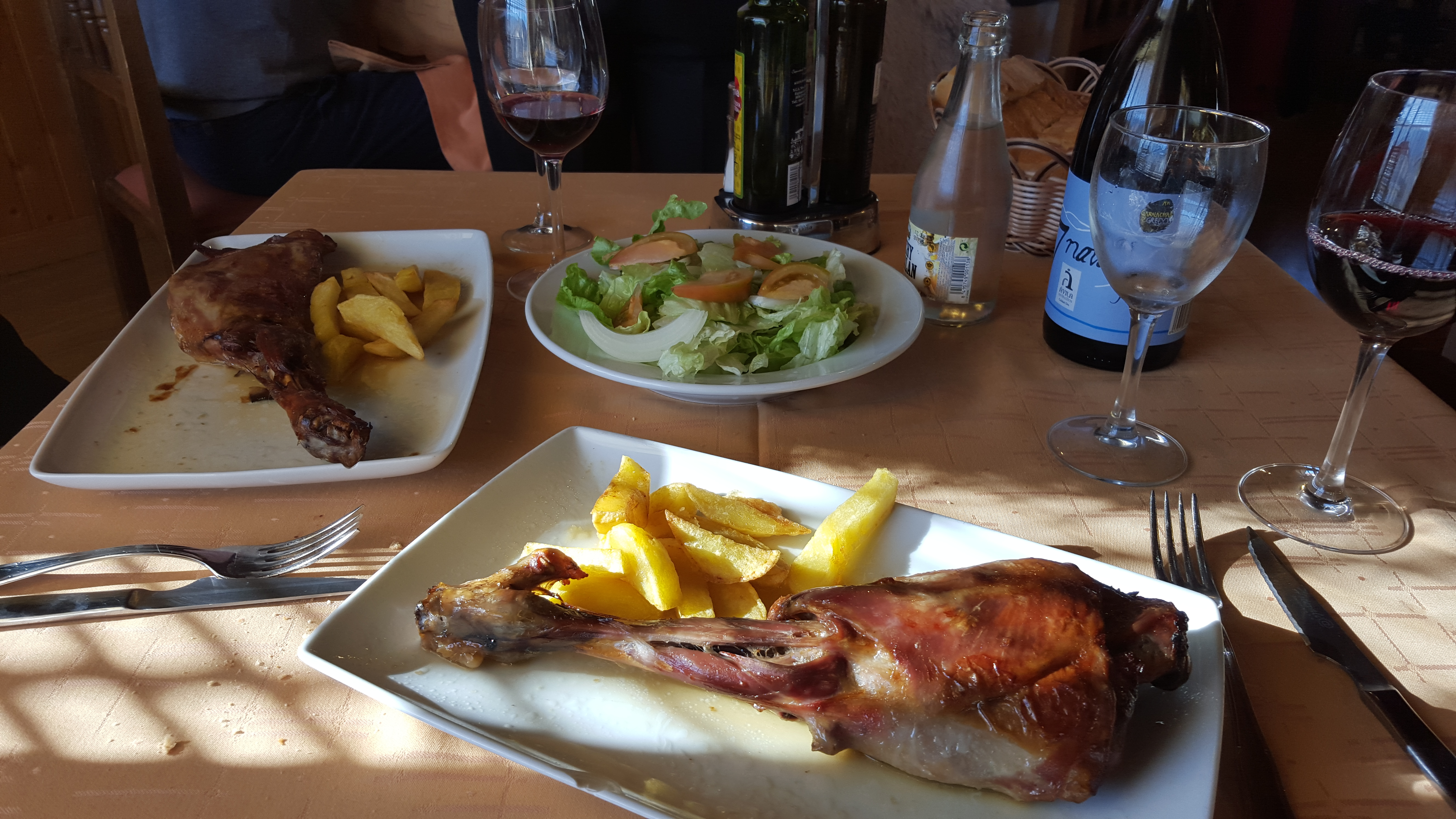 Leg of roasted kid goad Robledillo, Avila, Spain.